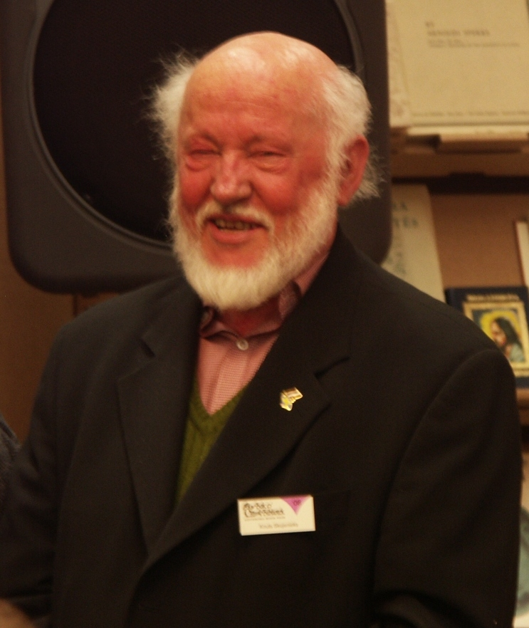 Latvian poet Knuts Skujenieks at the Gothenburg bookfair 2008.